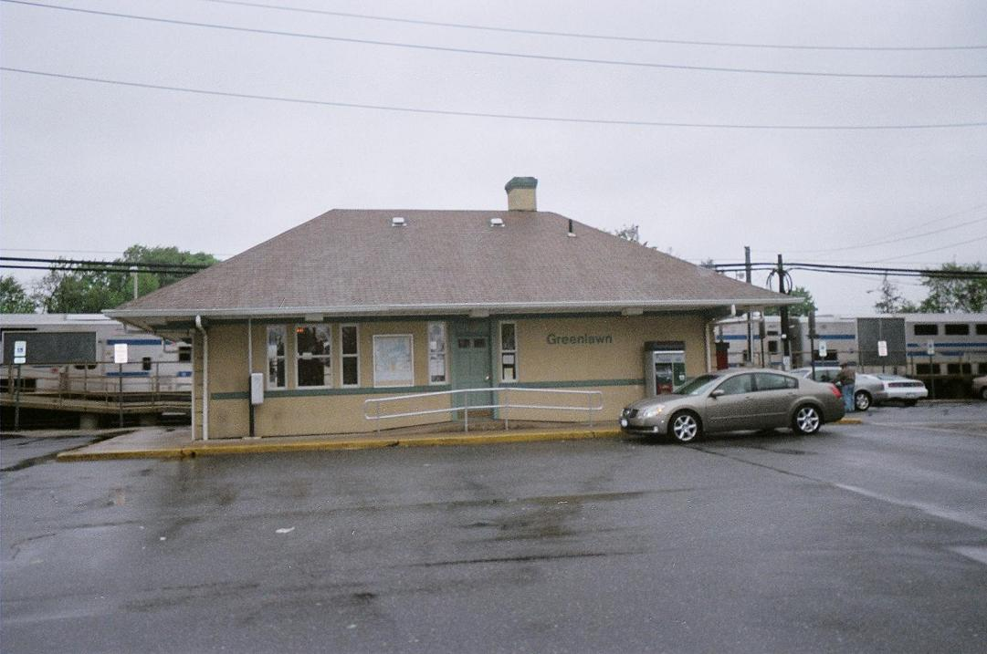 Commuters arriving home at Greenlawn (LIRR station). Note the appropriate trim for the station. Taken by me with great risk of a parking ticket, or worse. Originally uploaded on Wikipedia on May 12, 2008.